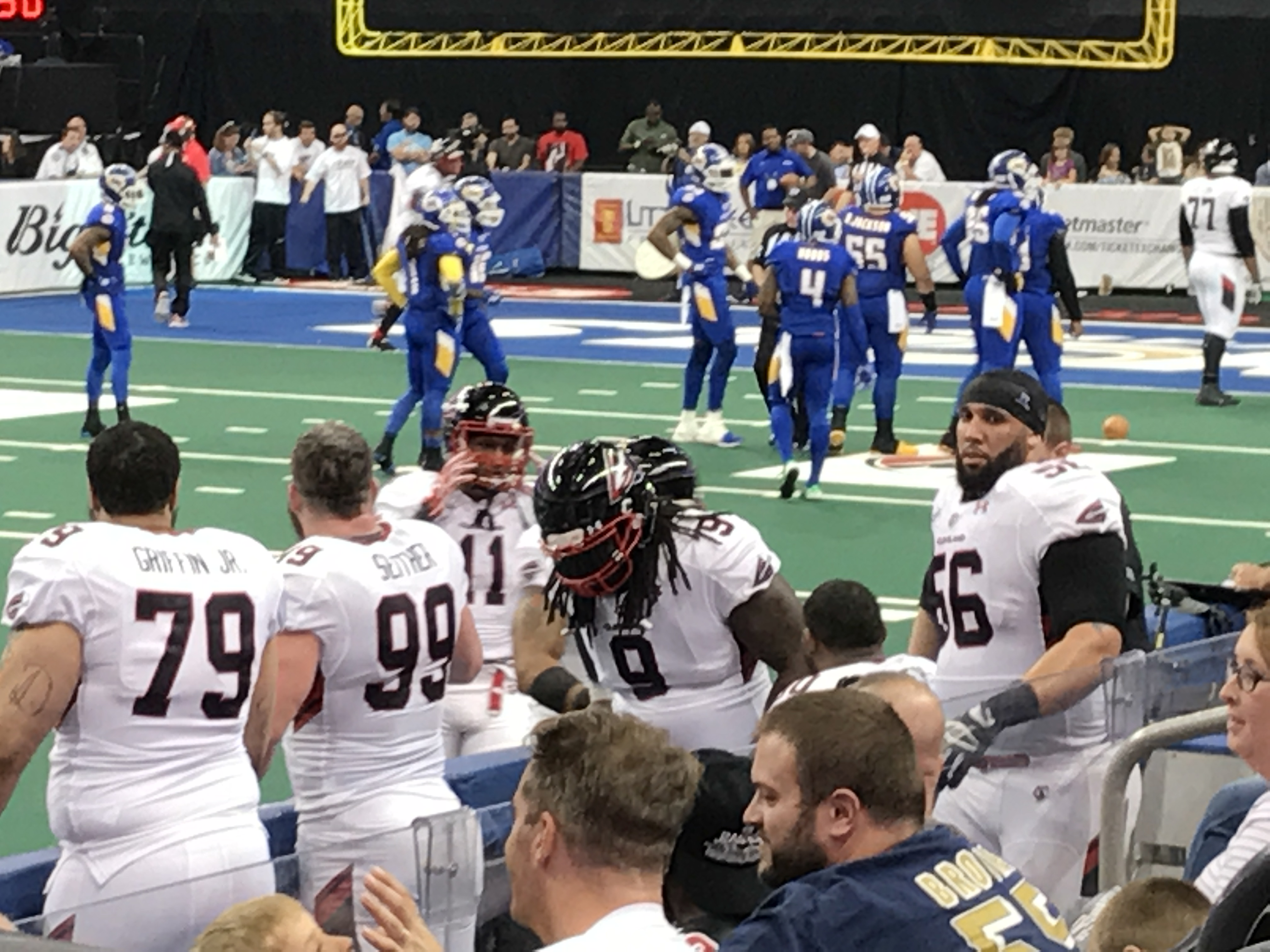 Cleveland Gladiators bench